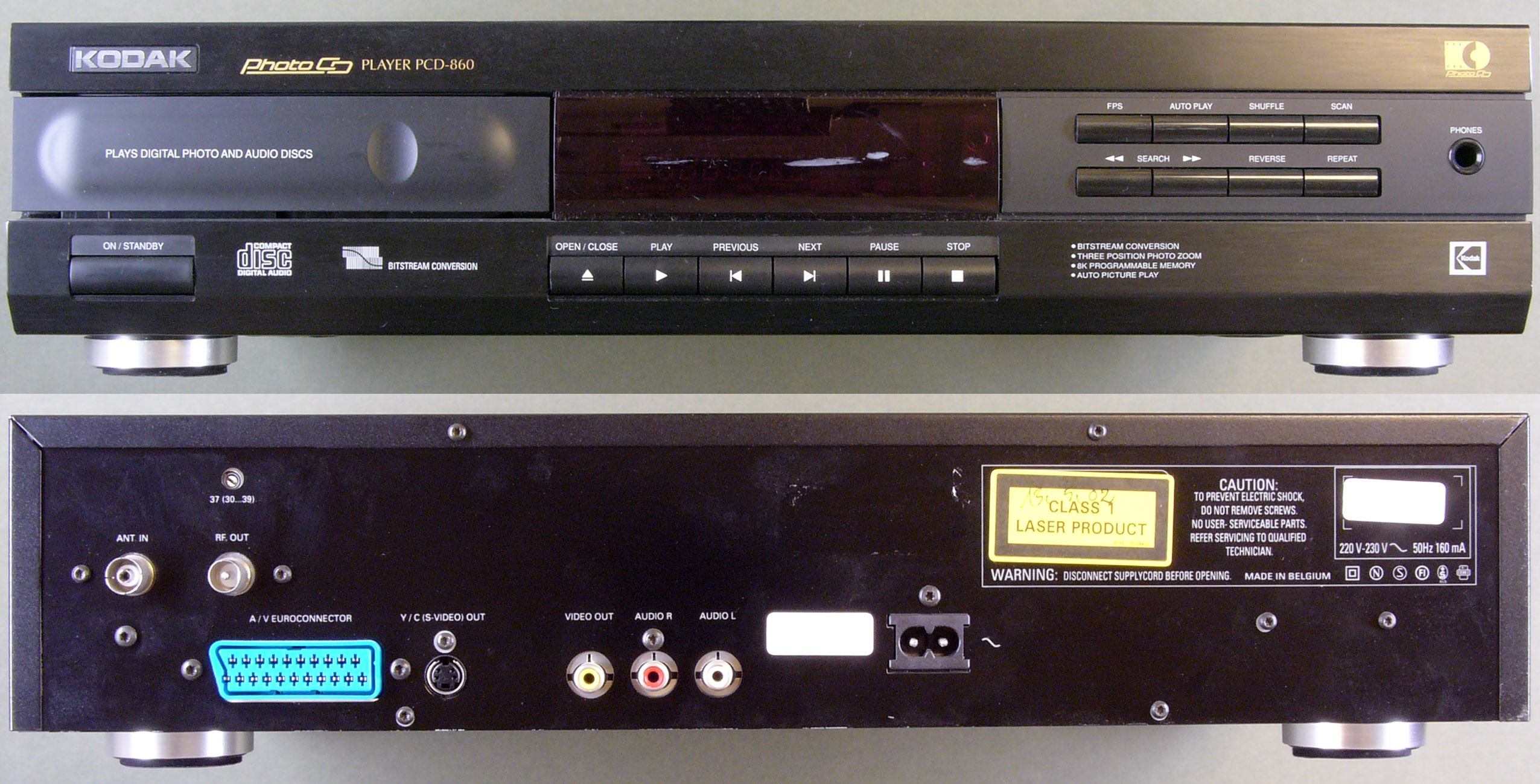 Photo CD player PCD-860 (Kodak)